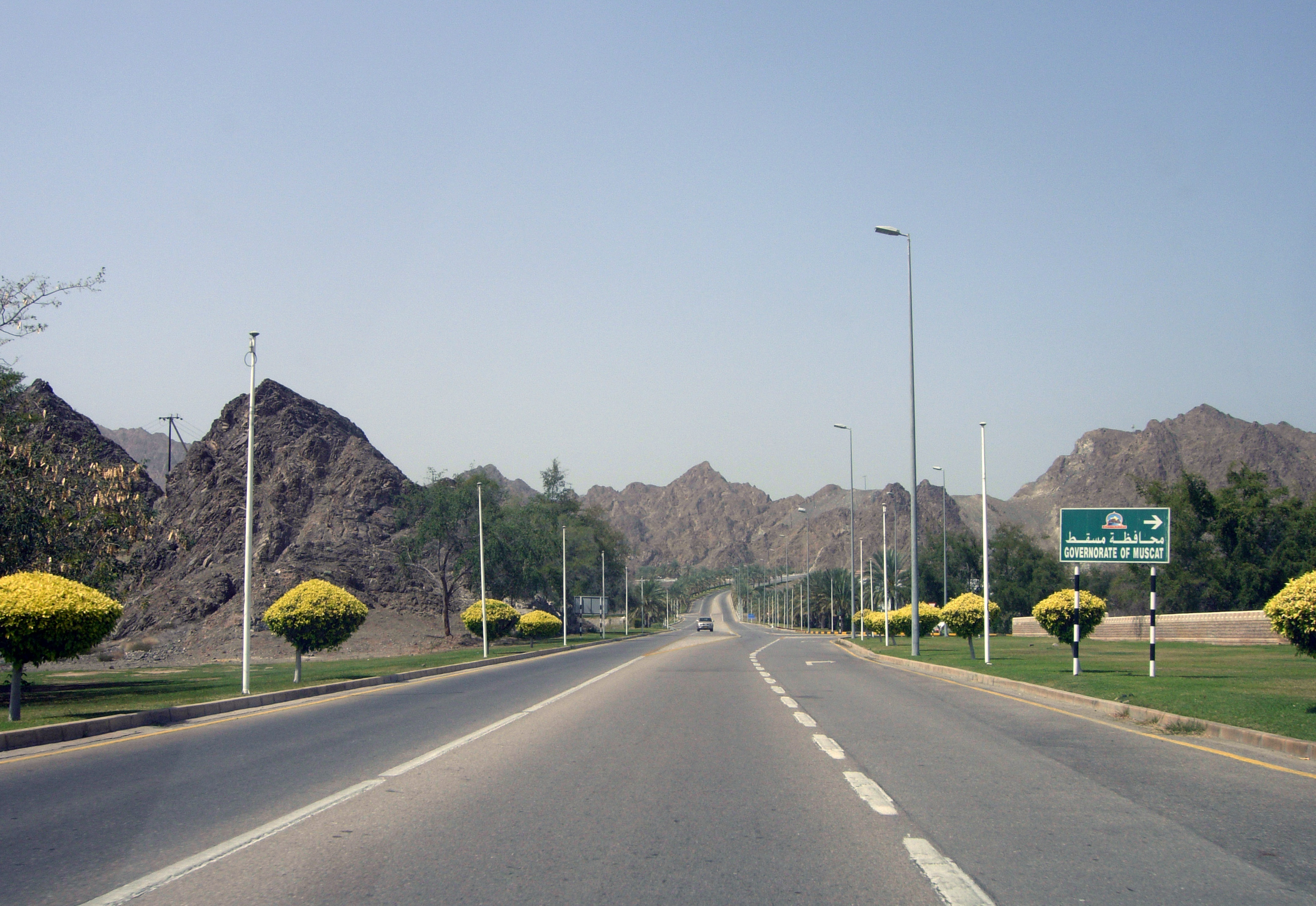 النقل في عمان1